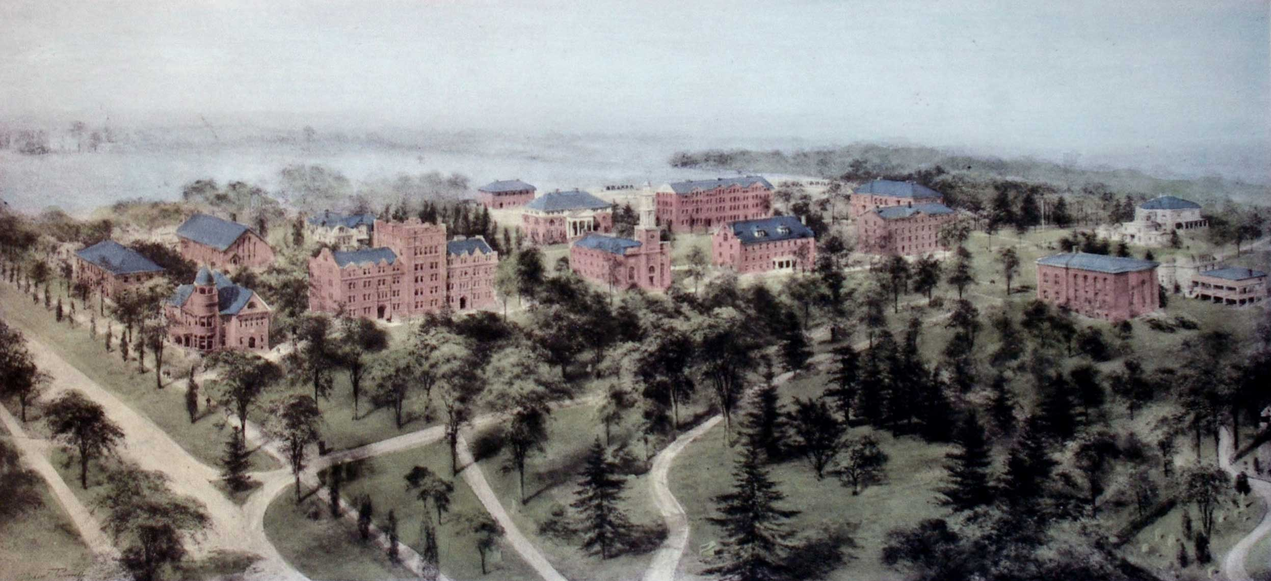 Richard Rummell's iconic landscape watercolor view of Hamilton College, circa 1910. Courtesy of Arader Galleries.